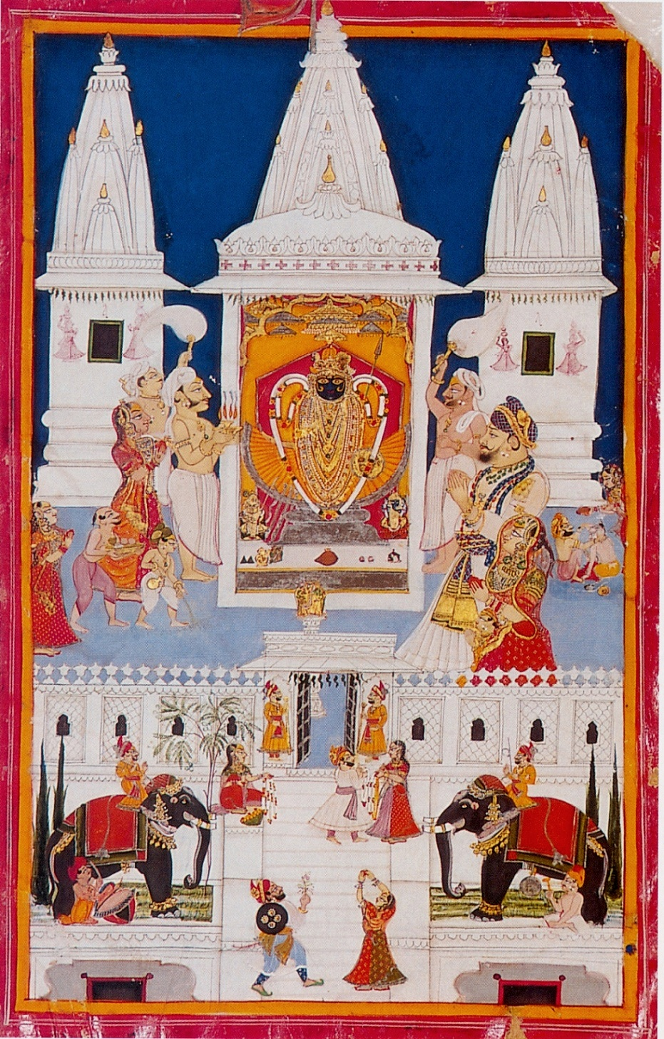 Maharaja Ram Singh II of Kota Visiting the Shrine of Dakorji at Prabhas. Kota. ca. 1830 Bharat Kala Bhavan coll.